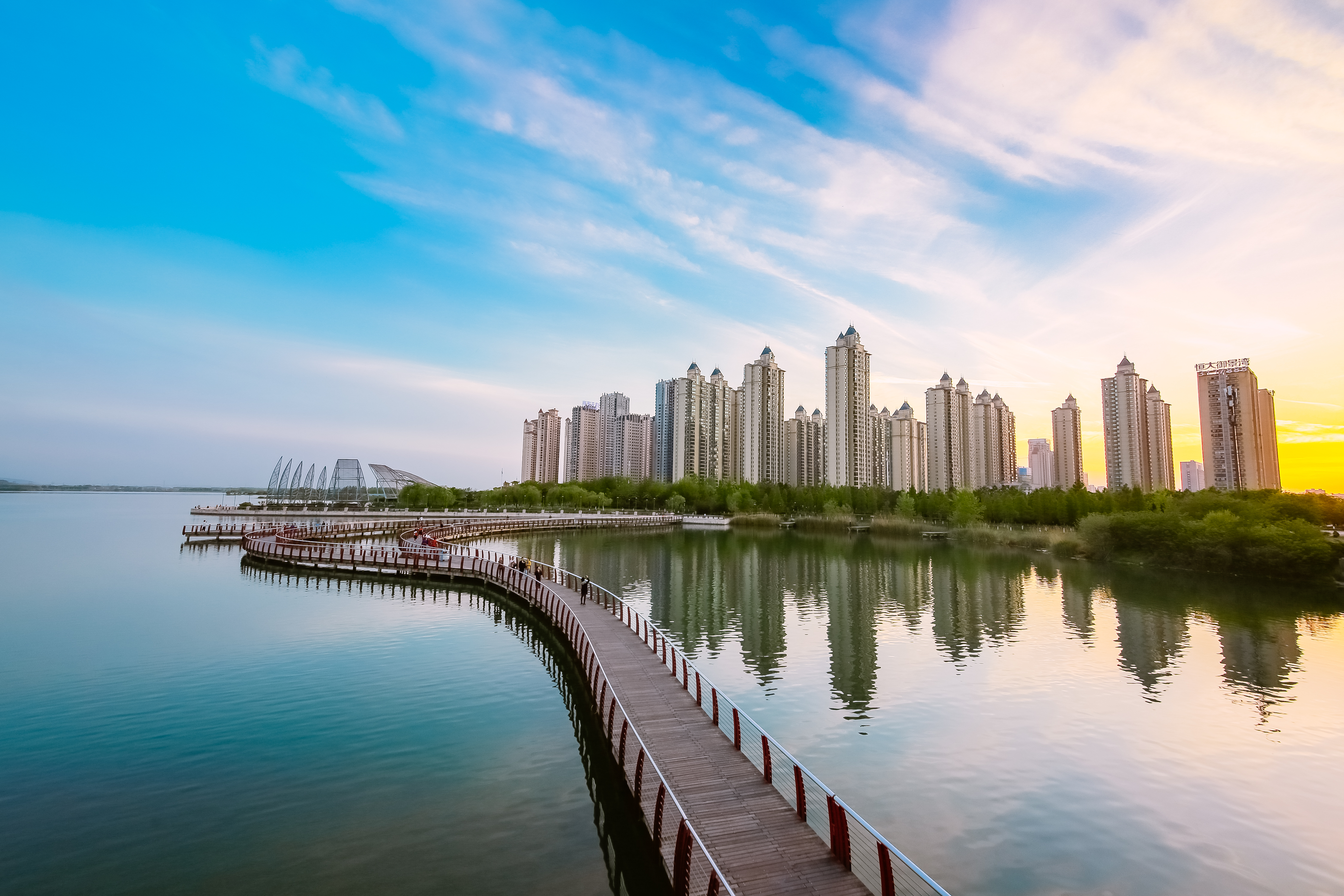 Bengbu City Dragon Lake Scenic Area on the picturesque scenery